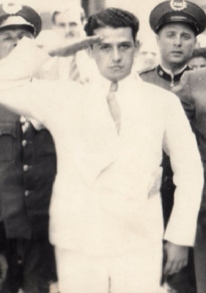 This is a picture taken of the late Elias Beauchamp, on the day of his arrest - Source El Imparcial newspaper, February 24, 1936, Photo was taken by Carlos Torres Morales, a photo journalist for the newspaper El Imparcial. In accordance to the "Copyright Term and the Public Domain in the United States, 1 January 2009" [1] Images published with notice but copyright was not renewed from 1923 through 1963 are public domain due to copyright expiration. "El Imparcial" which went out of service 35 years ago, could not have renewed it's copyright which expired. Therefore, since Puerto Rico fell under US copyright in 1936 as well as today, this would make the Elias Beauchamp image public domain. *Note